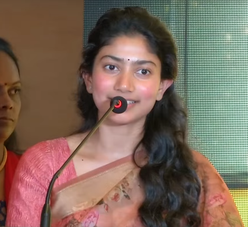 Sai Pallavi at Maari 2 Press meet